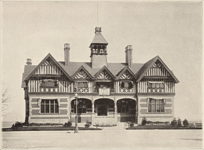 Great Britain Building. World's Columbian Exposition. Digitial Identifier: GN90799d_CON_177w World's Columbian Exposition Collection at The Field Museum